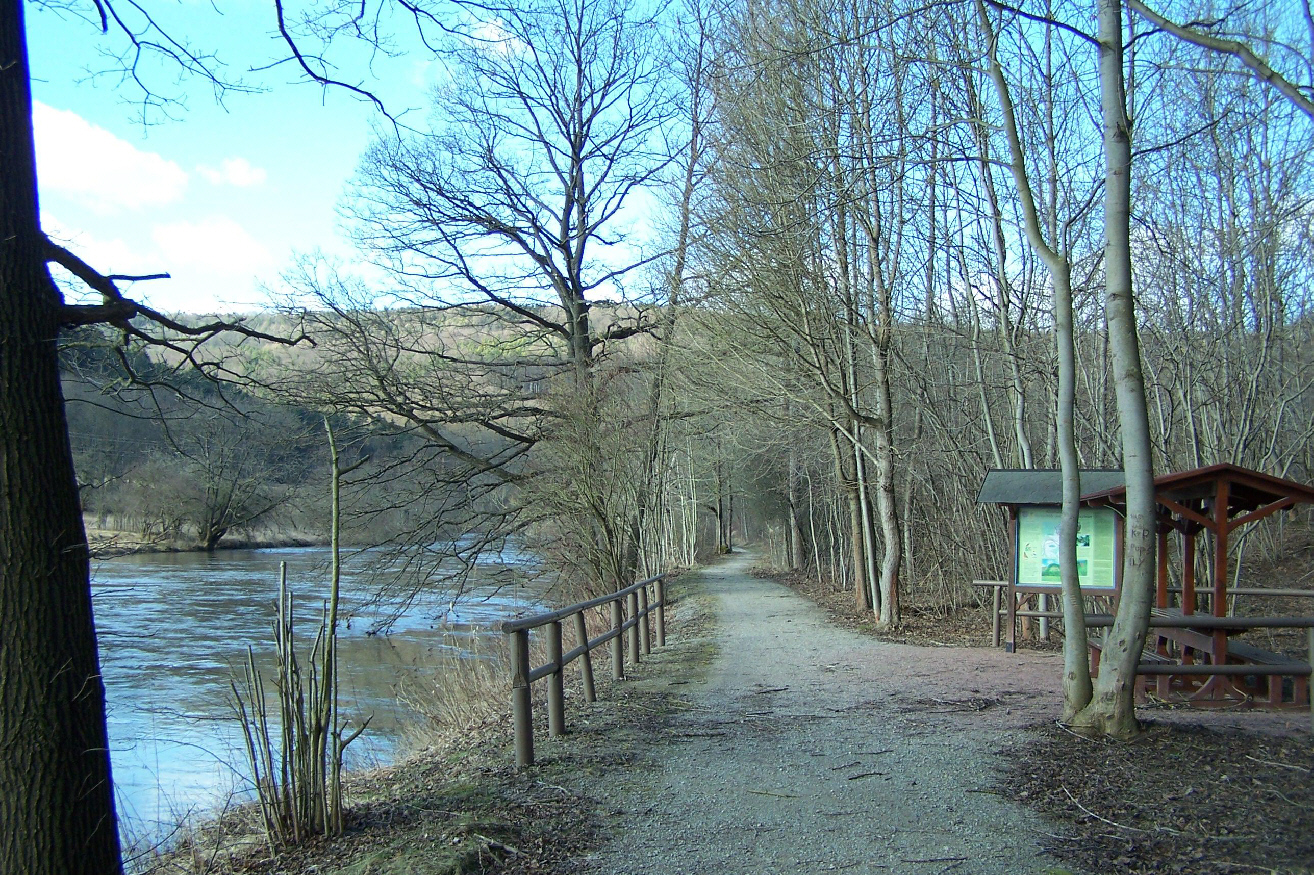 At riverside near Ebenau village.